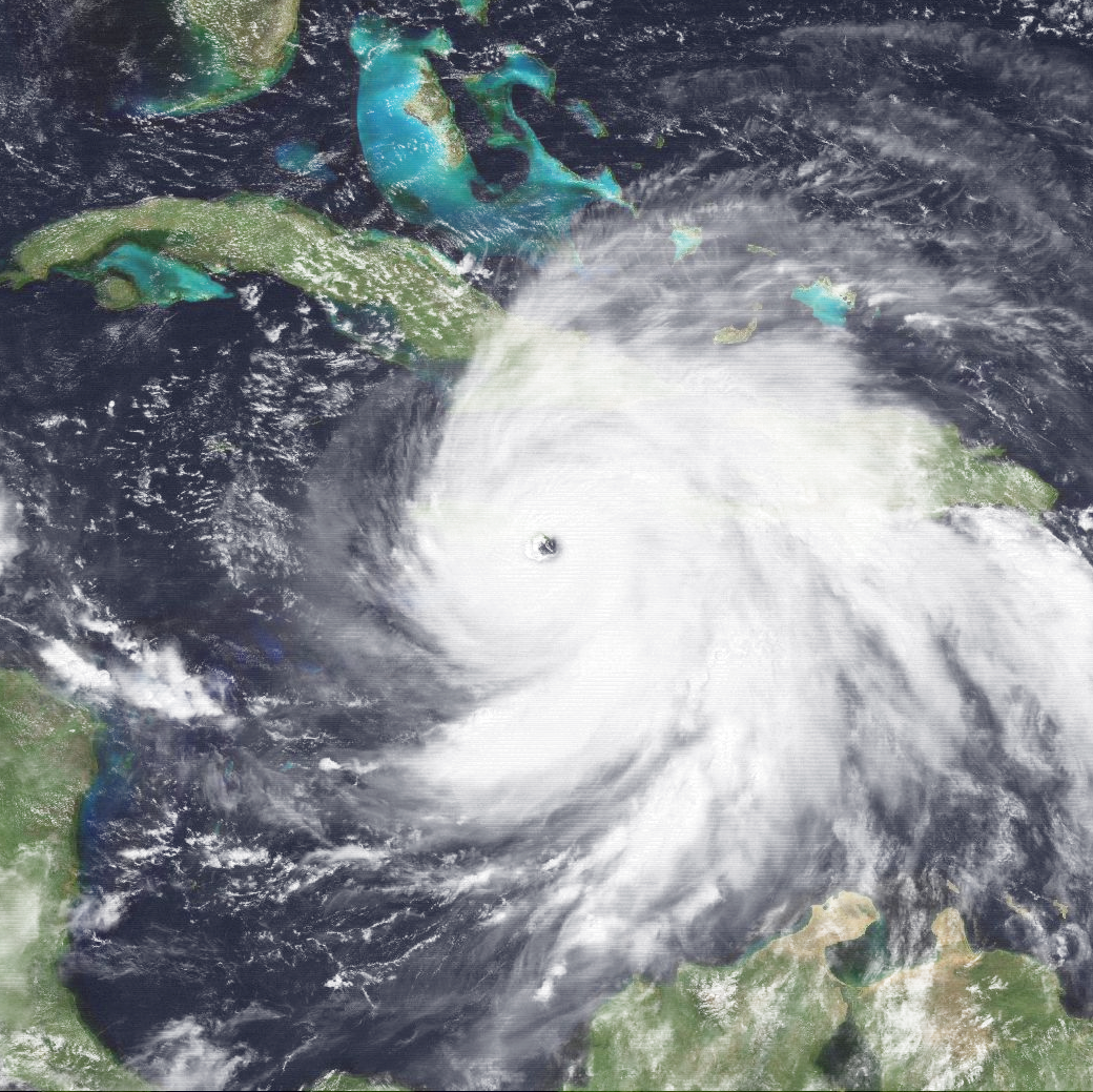 Hurricane Gilbert as an intensifying Category 3 hurricane just east of the island of Jamaica on September 12, 1988